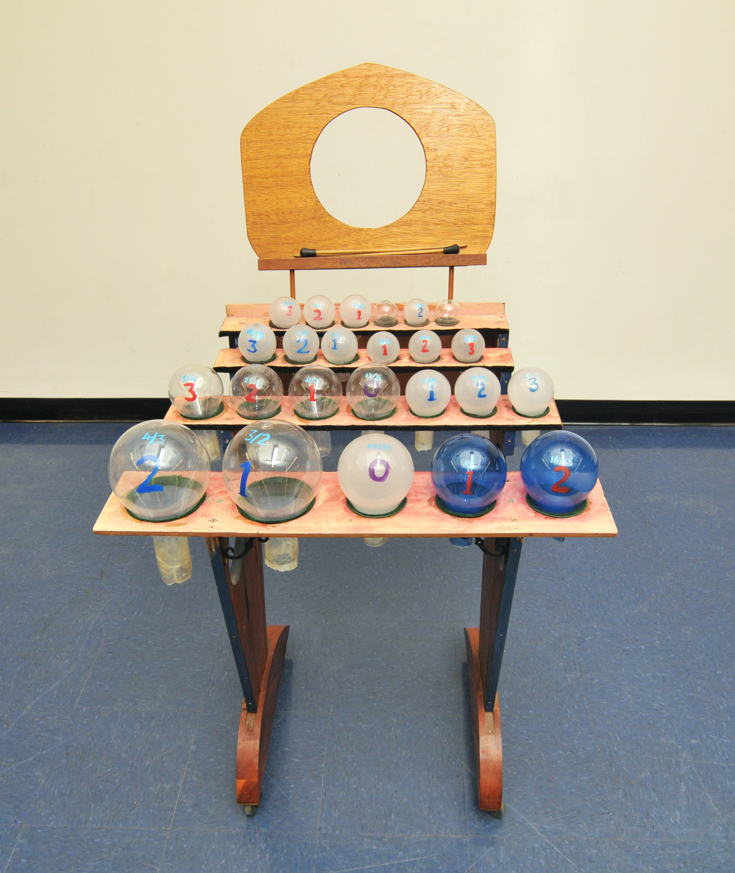 Harry Partch's Mazda Marimba, a marimba with light bulbs as the playable components. Photographed at the Harry Partch Institute at Montclair State University.